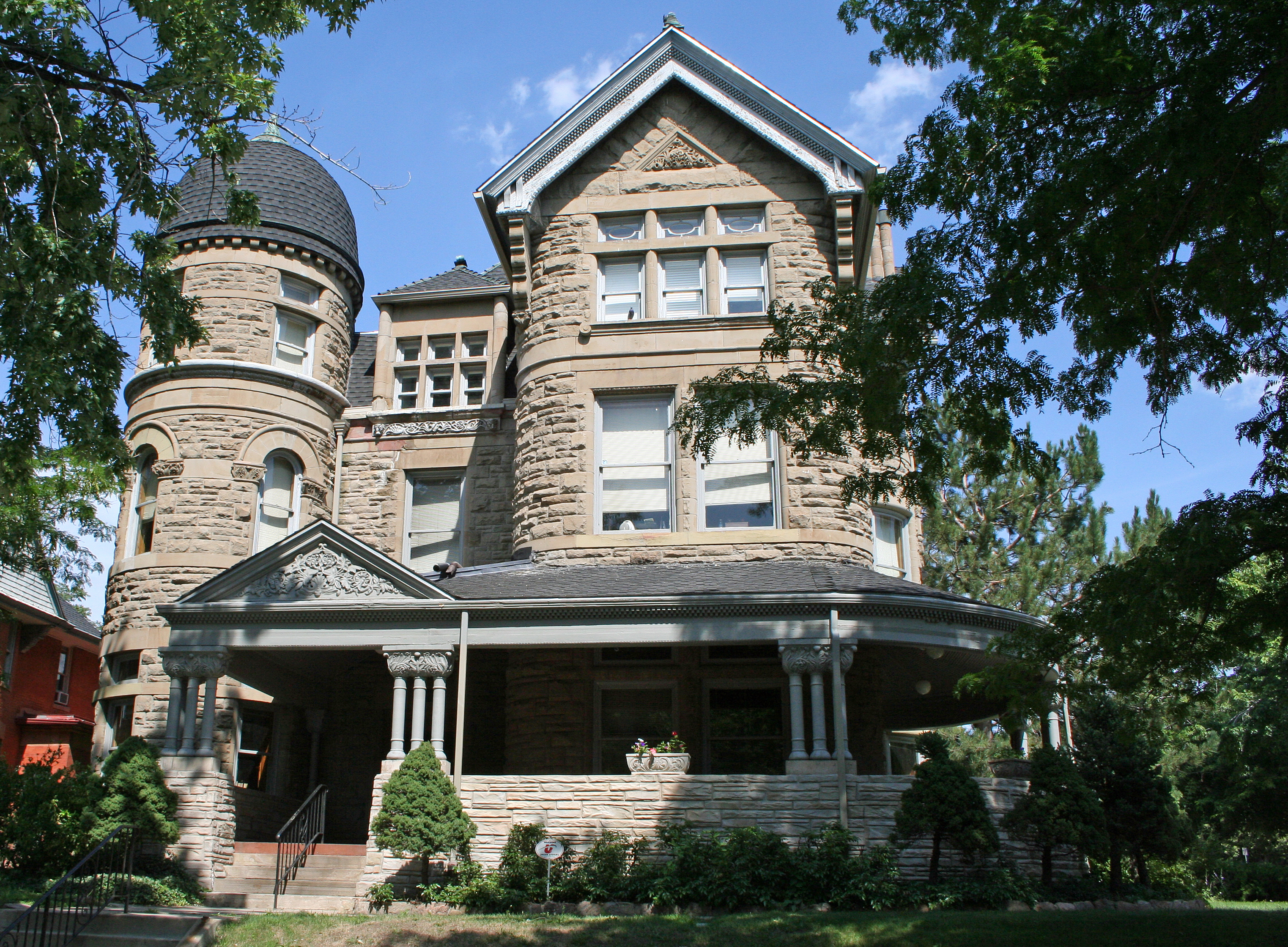 The Bailey House, located at 1600 Ogden Street in Denver, Colorado.